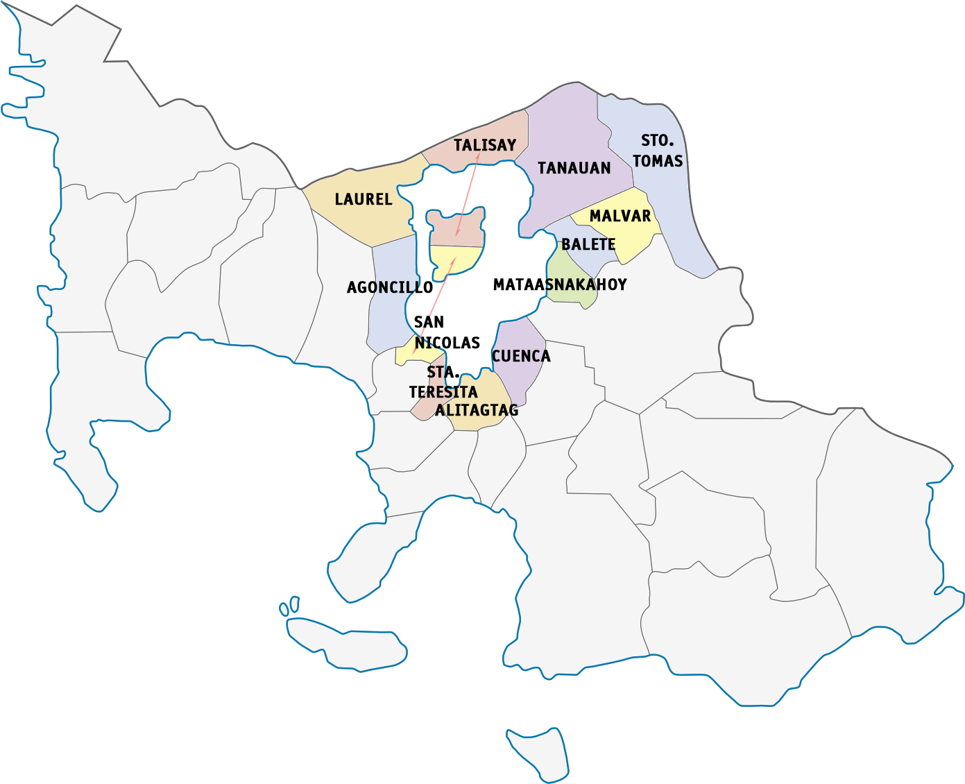 Map of the 3rd legislative district of Batangas, PhilippinesTagalog: Mapa ng Ikatlong distrito ng Batangas, Pilipinas